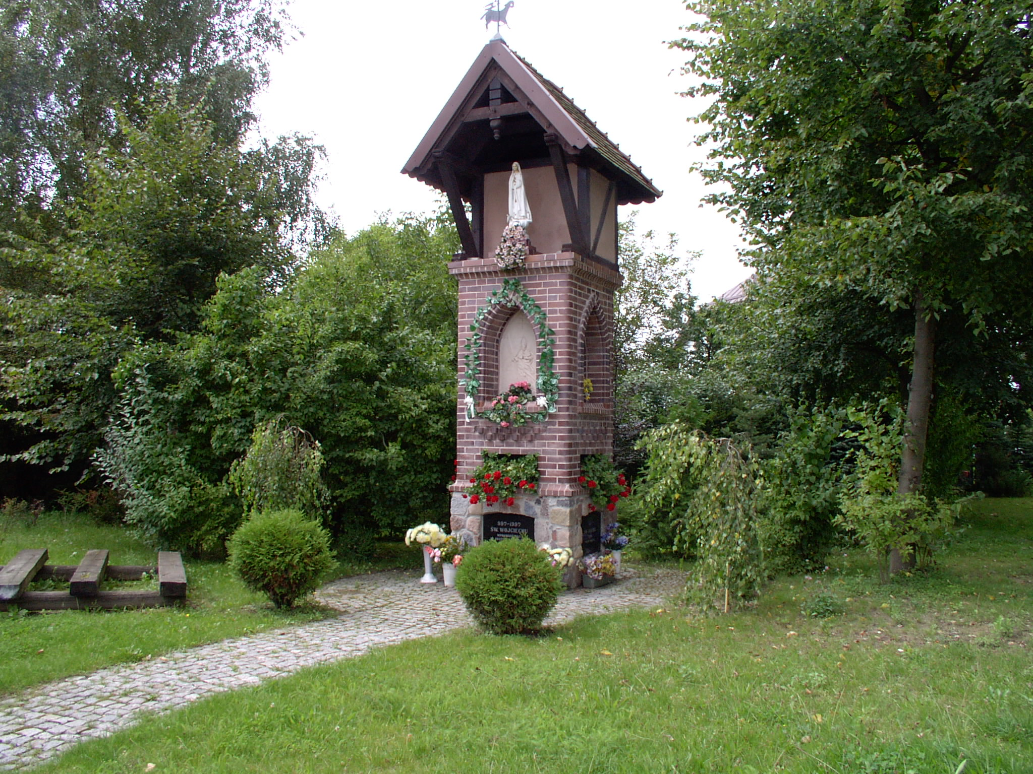 Roadside shrine in os. Brzeziny, Olsztyn.